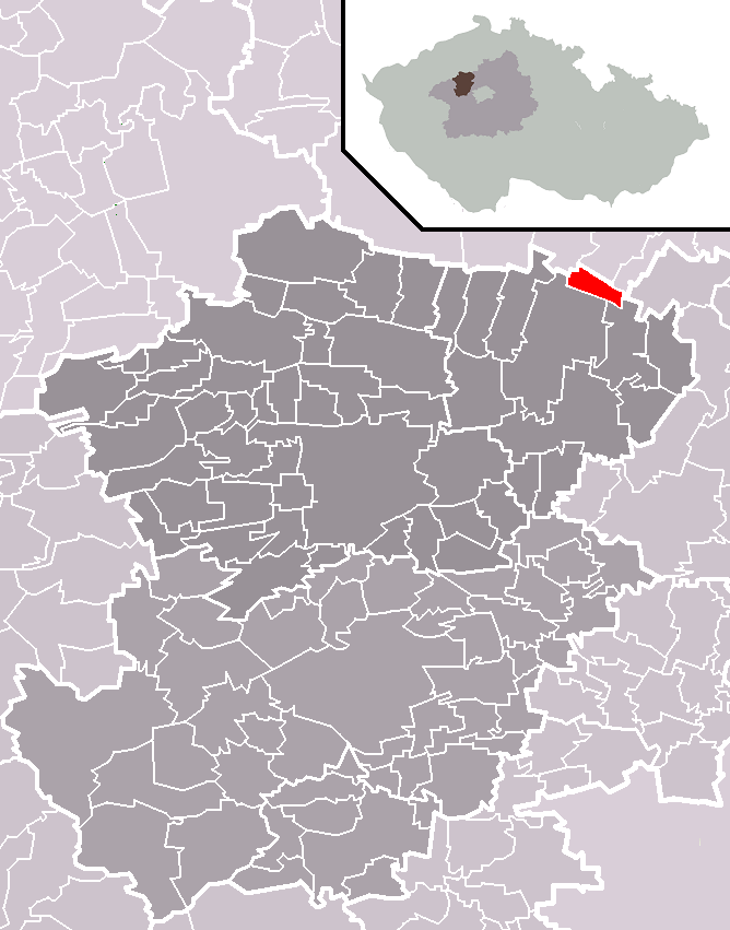 Location of Loucká municipality within Kladno District and administrative area of Slaný as a Municipality with Extended Competence.